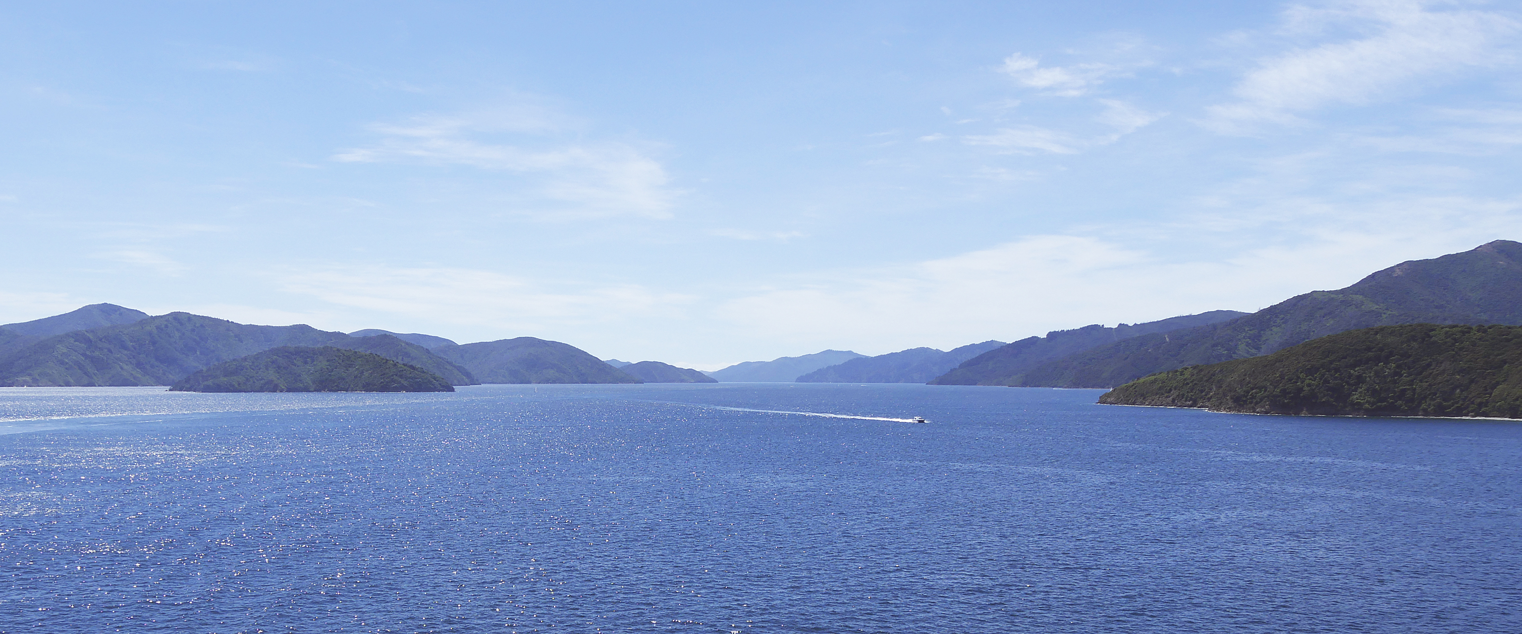 Queen Charlotte Sound, Marlborough District, South Island, New Zealand (View to the sount to northeast wit Allports Island on the left)